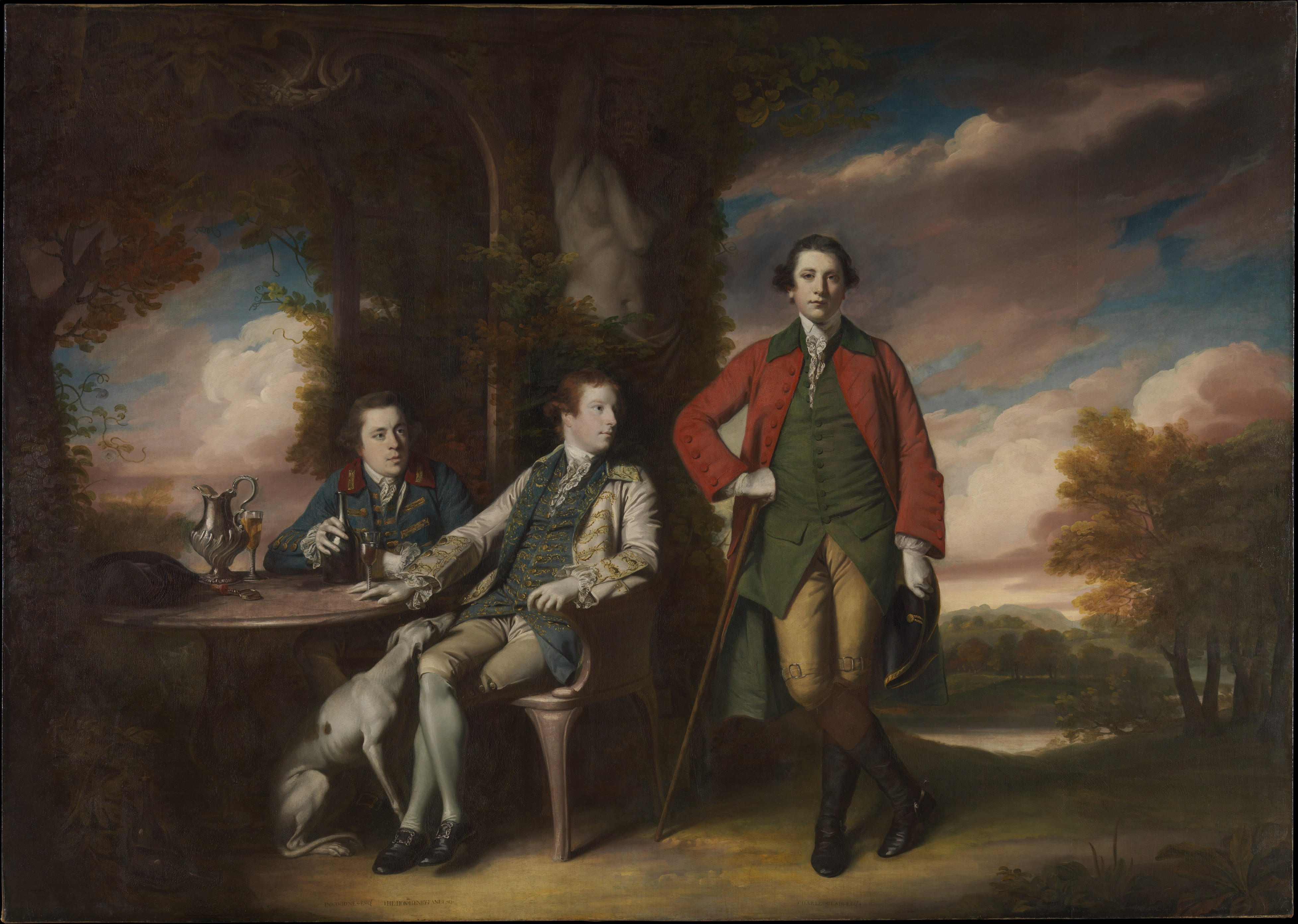 The Honorable Henry Fane (1739–1802) with Inigo Jones and Charles Blair Artist: Sir Joshua Reynolds (British, Plympton 1723–1792 London) Date: 1761–66 Medium: Oil on canvas Dimensions: 100 1/4 x 142 in. (254.6 x 360.7 cm) Classification: Paintings Credit Line: Gift of Junius S. Morgan, 1887 Seated at the center with a greyhound at his knee is the Honorable Henry Fane, second son of the eighth earl of Westmorland. To the left is Inigo Jones, a relative of the celebrated architect, and to the right Charles Blair, Fane's brother-in-law. Reynolds's largest and most impressive conversation piece, this canvas was begun in 1761 and completed in 1766. In the course of visits to London each of the three gentlemen would have sat for Reynolds separately, in his studio.